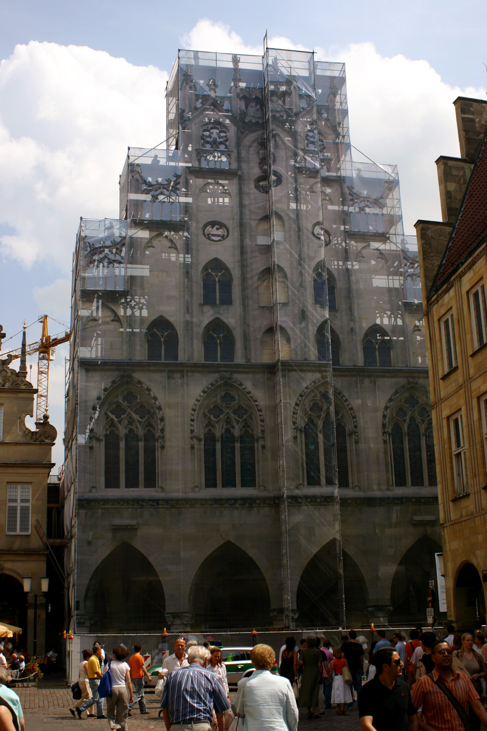 Historical City Hall in Münster, Germany - during renovation in summer 2006